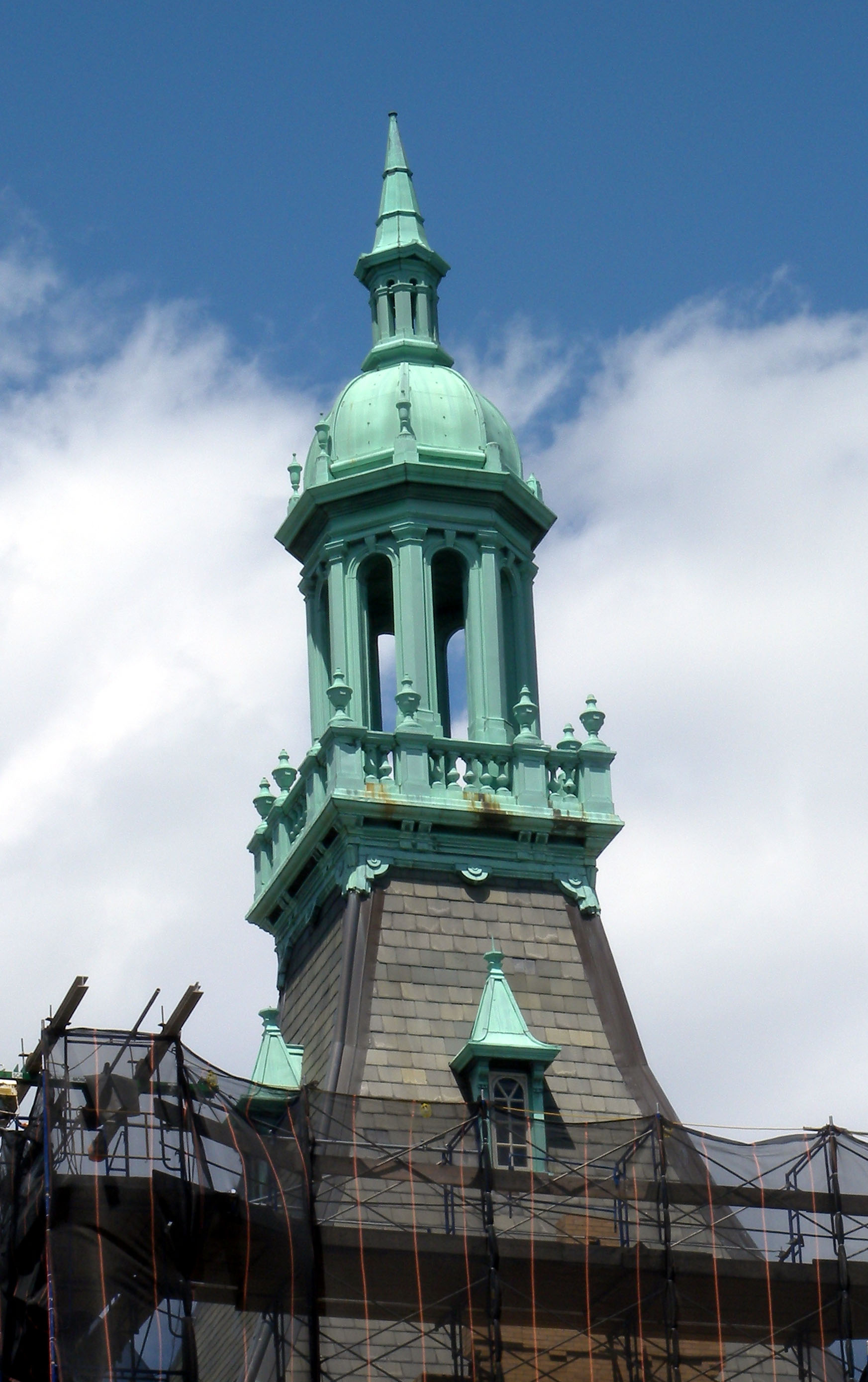 Looking north, full zoom, at tower of Newtown High School in Elmhurst on a sunny midday. NYCLPC designation 2003.